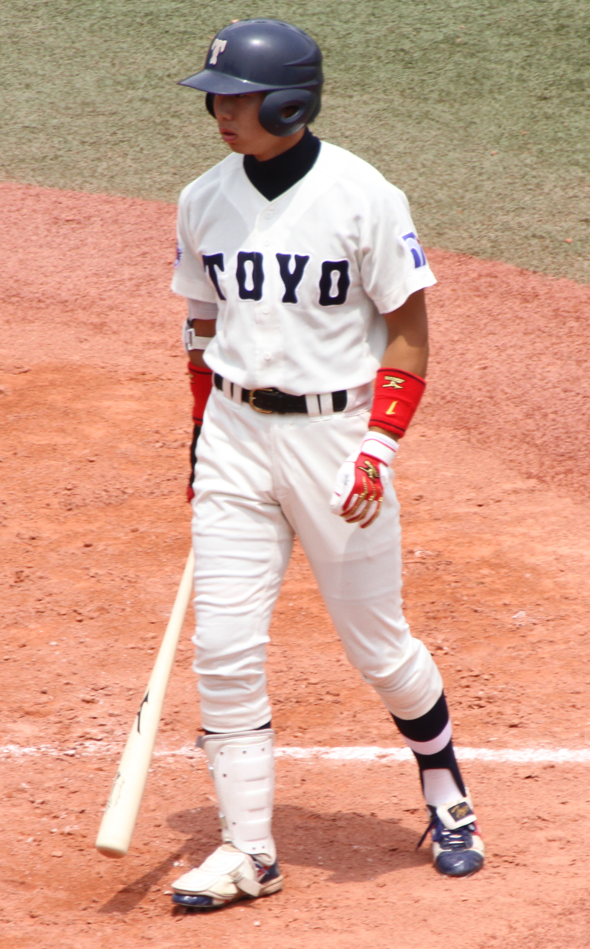 Ryosuke Ogata, outfielder of the Toyo University Baseball Club, at Meiji Jingu Stadium.